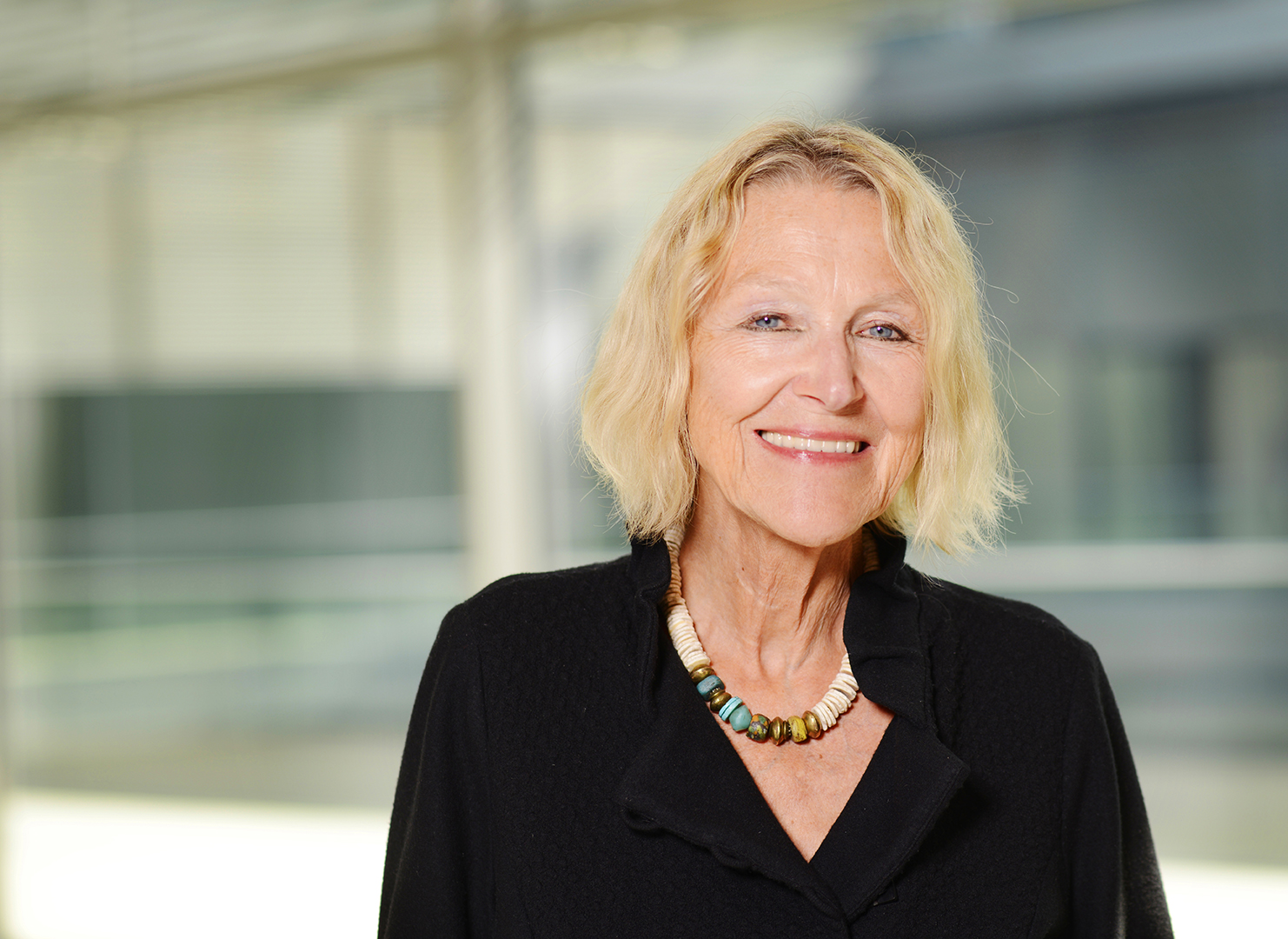 Member of the German Bundestag ALLIANCE 90/THE GREENS Chairwoman of the Committee on the Environment, Nature Conservation and Nuclear Safety